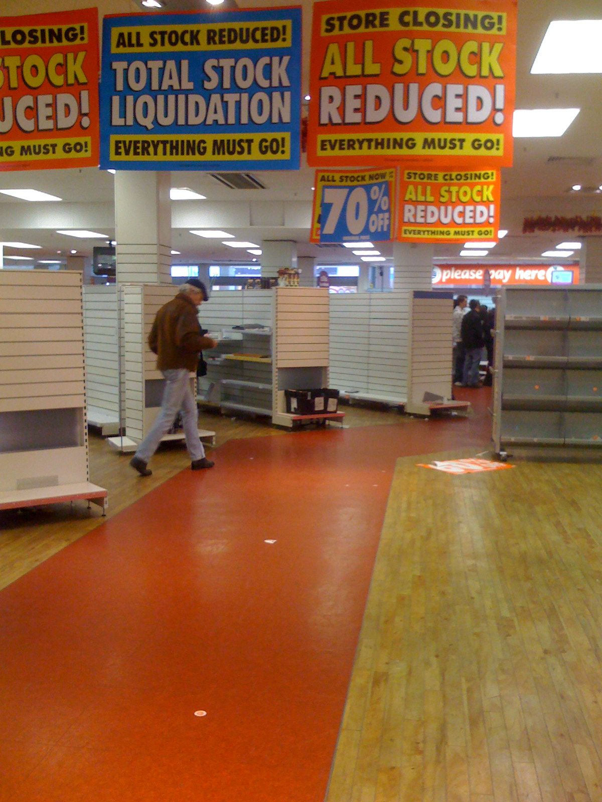 Interior of the Croydon branch of a Woolworths Group store